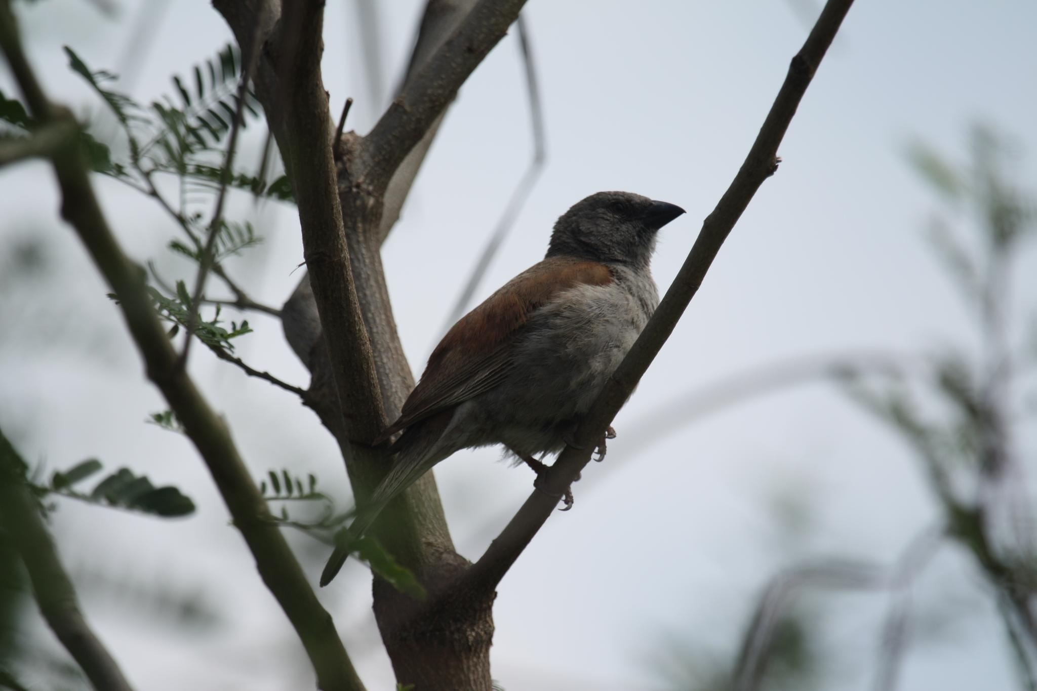 A Swainson's Sparrow in Ethiopia.